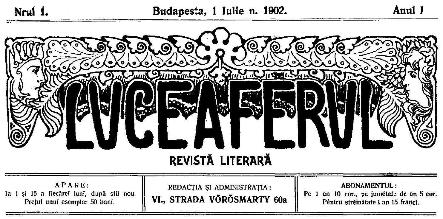 Luceafărul logo for issue no. 1, 1st year, dated July 1st, 1902, published by "Tipografia Poporul Român", Budapest